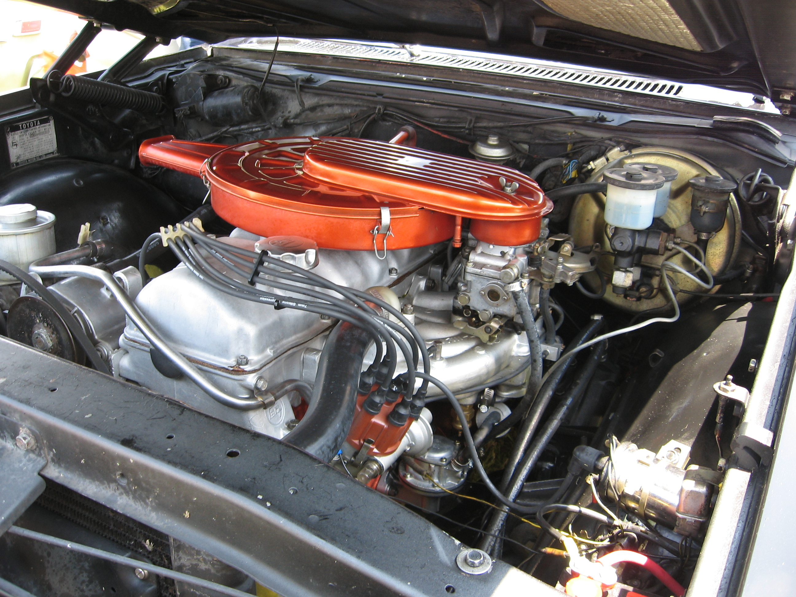 Toyota 4M engine taken at Toyota Fest 2007 in Long Beach, California.